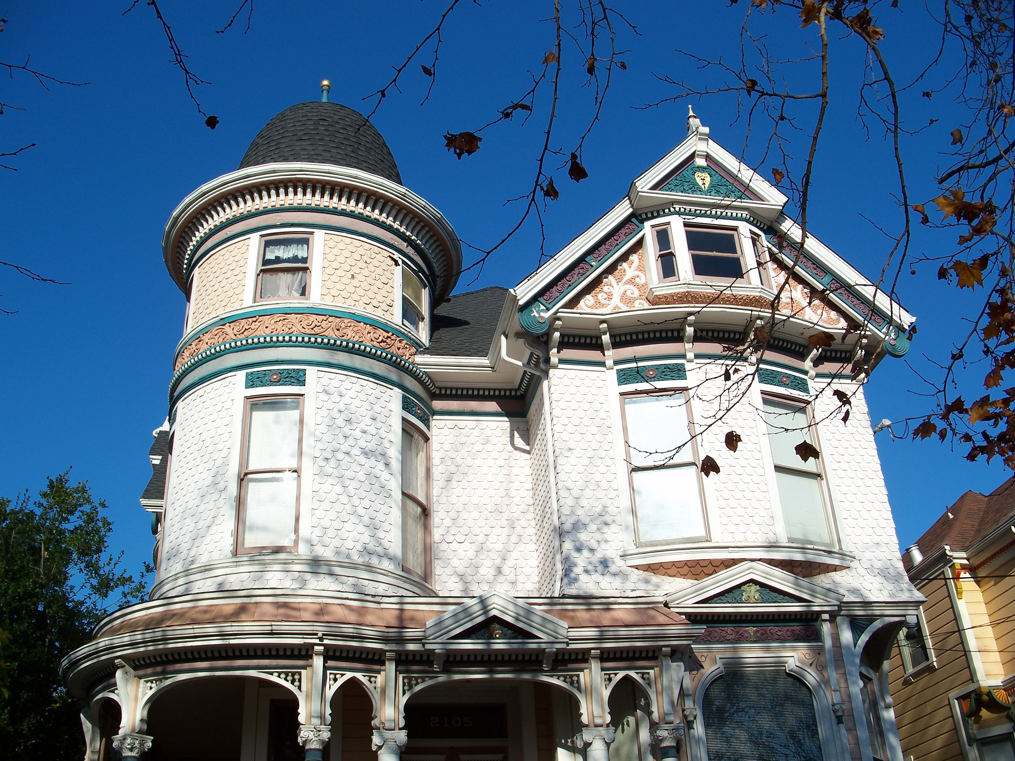 2105 San Antonio Avenue. Alameda, California, USA